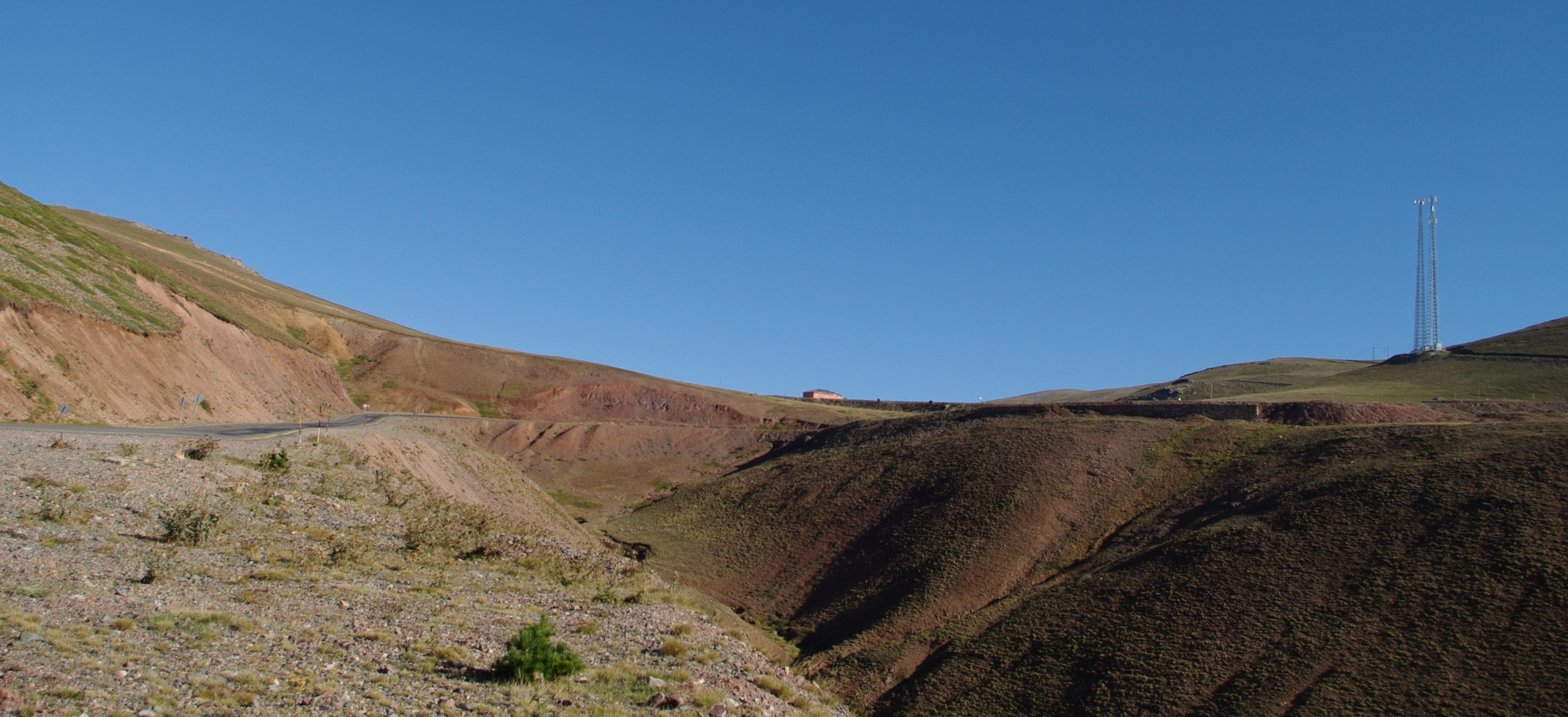 A view of Egribel Pass (Turkish: Eğribel Geçidi) located on the Sebinkarahisar-Dereli Road. (Egribel meant "(horse)waist pass" in Turkish)due to its shape is just similar to animal waist.) Altitude: 2200 m Location Type: Pass Latitude: 40.4025 Longitude: 38.42167 Latitude (DMS): 40° 24' 9 N Longitude (DMS): 38° 25' 18 E